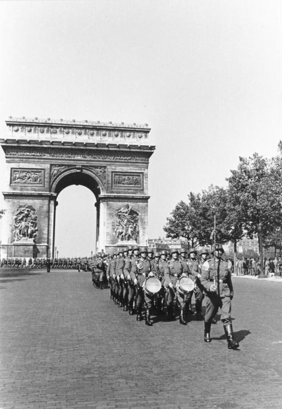 Title: Paris, Parade deutscher Soldaten Extra information: Frankreich, Paris.- Parade deutscher Soldaten.- Musikzug vor dem Triumphbogen (Arc de Triomphe); PK Staffel B Factual corrections and alternative descriptions are encouraged separately from the original description. Additionally errors can be reported at this page to inform the Bundesarchiv. Original historic description